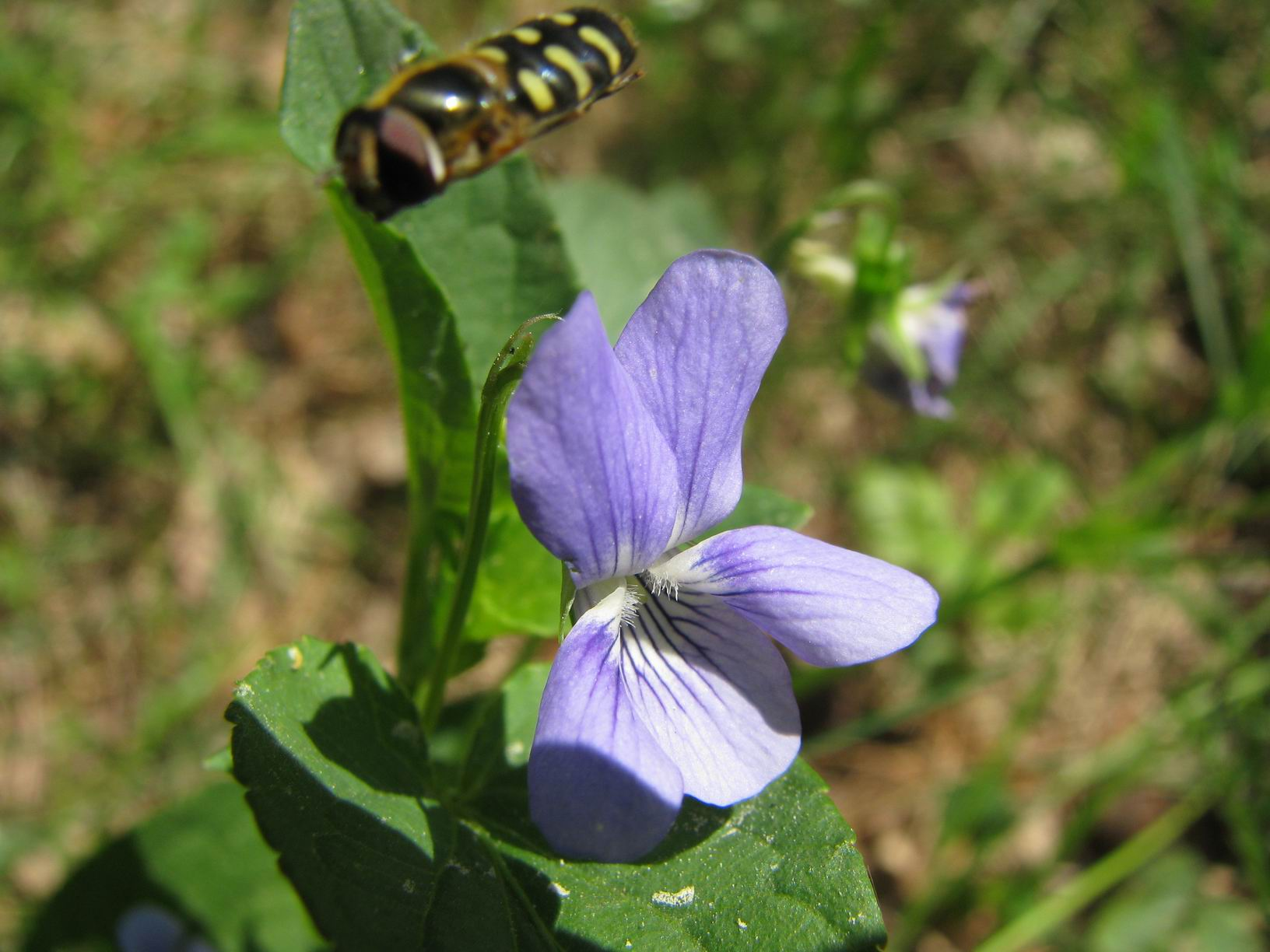 Viola epipsila. Savinsky District of Ivanovo Oblast, Russia